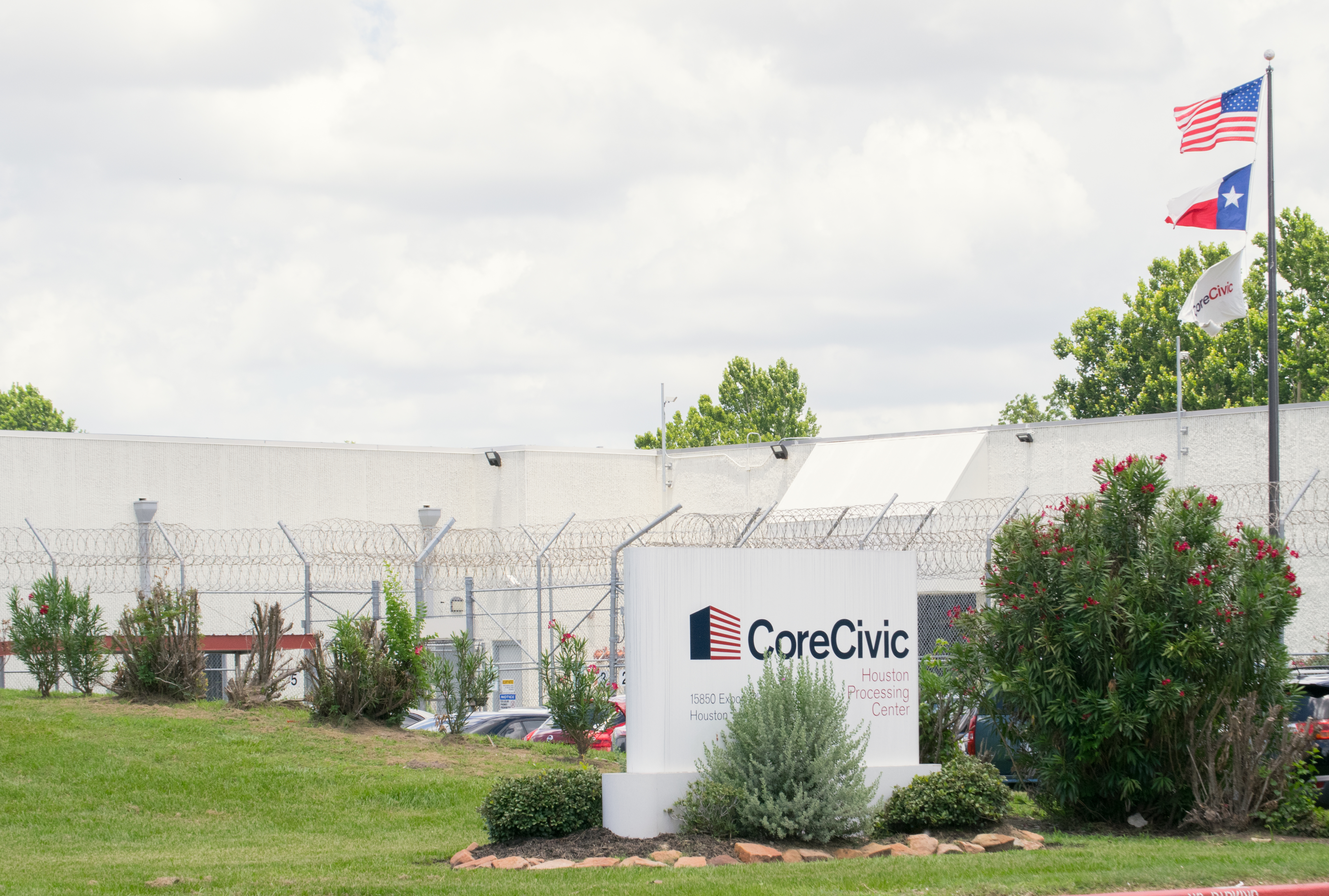 CoreCivic Houston Processing Center 15850 Export Plaza Drive Before the recent exposure of Southwest Key I was unaware of the extent to which private companies are benefiting from incarcerating immigrants, both adults and children.